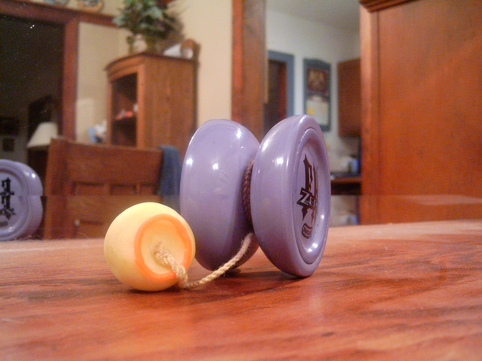 Yo-yo with counter weight at another end of the string (instead of fix it at yo-yoer's finger). Yo-yoer use it for 5A contest, its rules allow yo-yoer to show tricks with free hand.